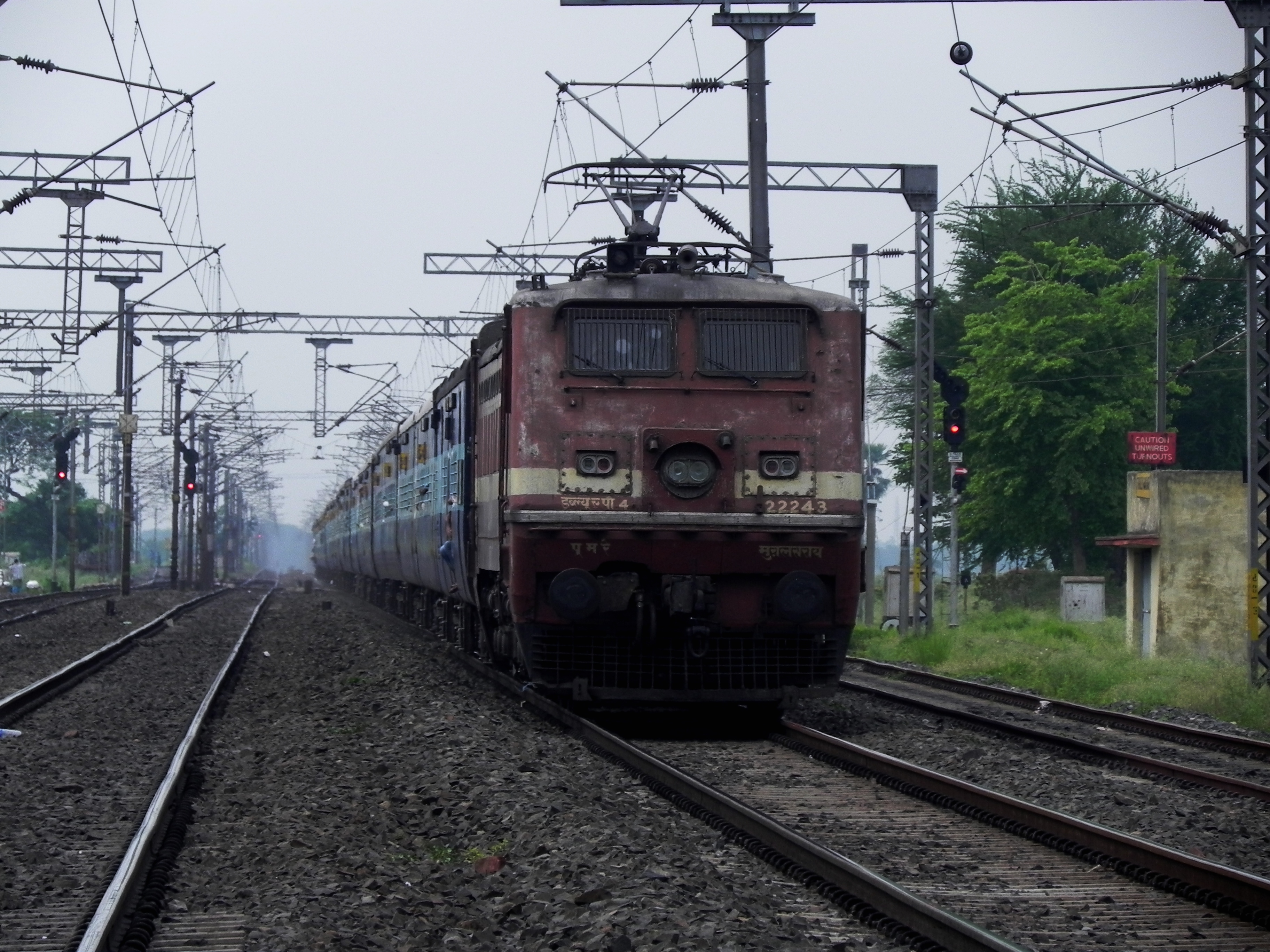 New Delhi (NDLS) bound 12381 (HWH-NDLS) Poorva Express at Chandanpur, West Bengal